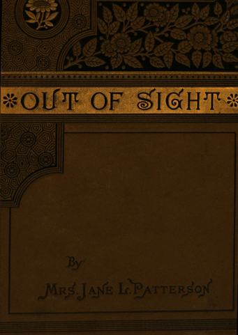 Out of Sight: A Story, By Jane Lippitt Patterson